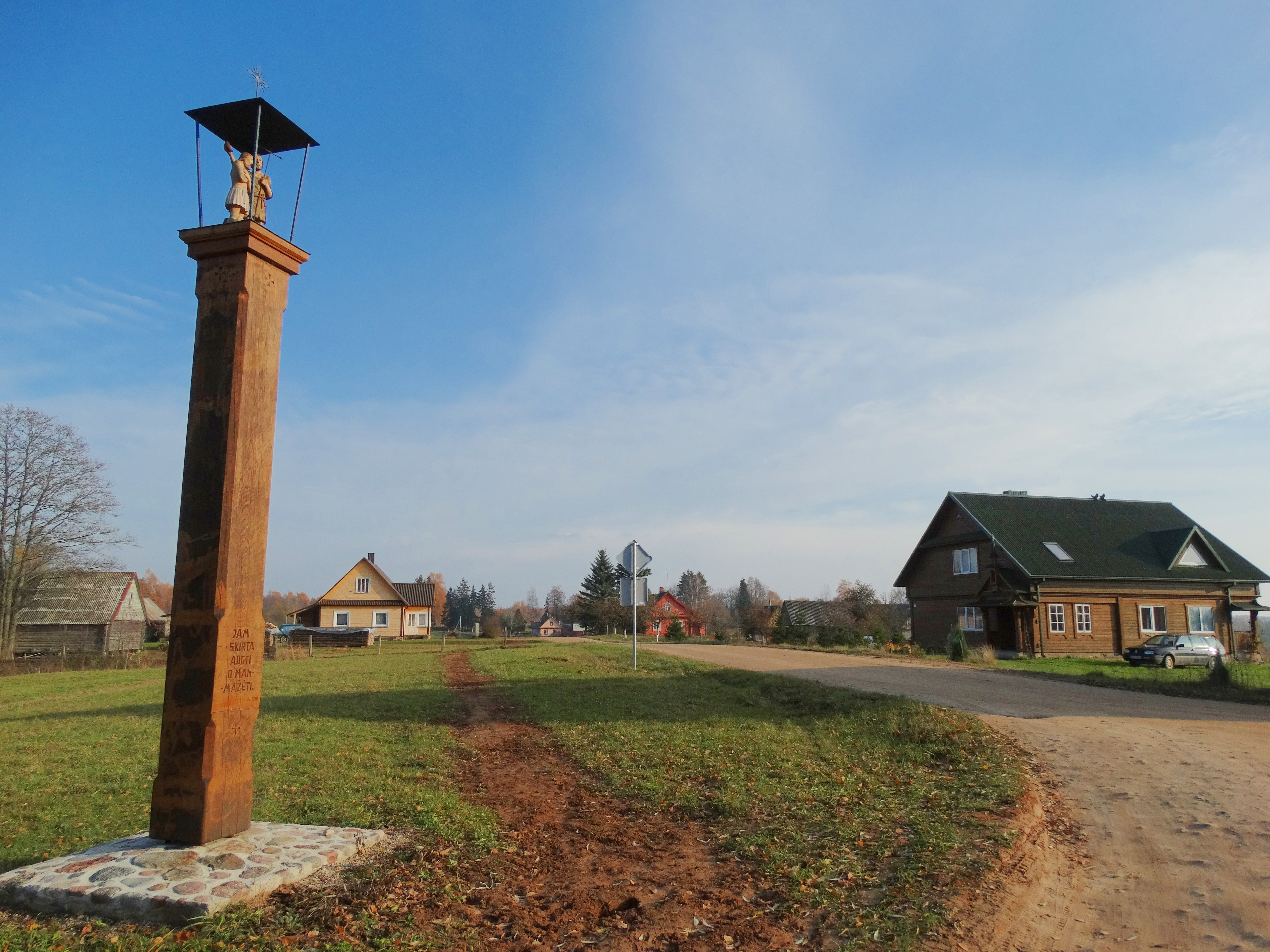 Baltriškės, Zarasai district, Lithuania